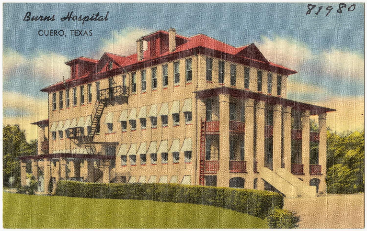 File name: 06_10_019872 Title: Burns Hospital, Cuero, Texas Created/Published: Nationwide Advertising, Tyler, Texas Date issued: 1930-1945 (approximate) Physical description: 1 print (postcard) : linen texture, color ; 3 1/2 x 5 1/2 in. Genre: Postcards Subjects: Hospitals Notes: Title from item. Collection: The Tichnor Brothers Collection Location: Boston Public Library, Print Department Rights: No known restrictions